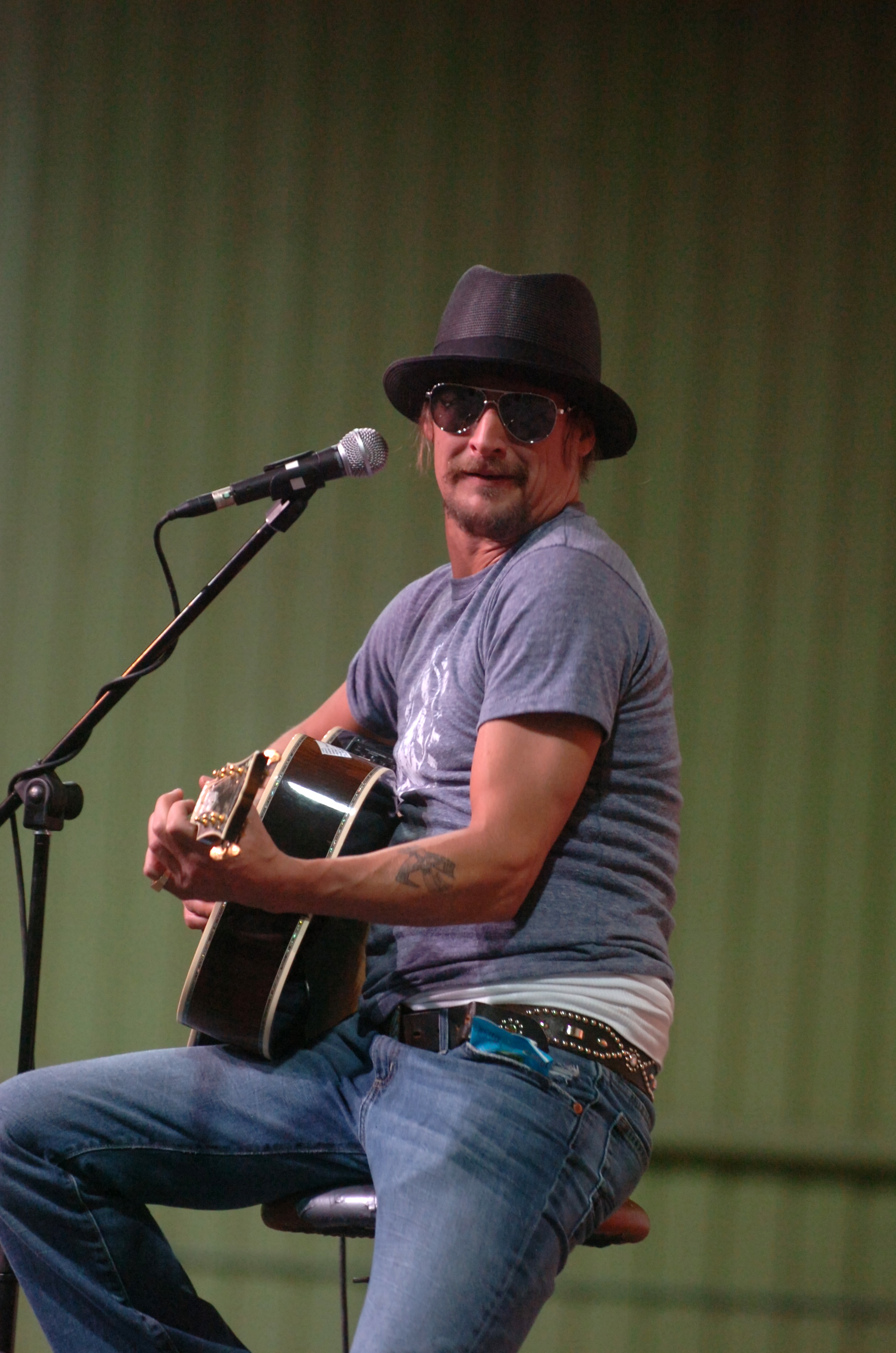 American musician Kid Rock performing in 2007.